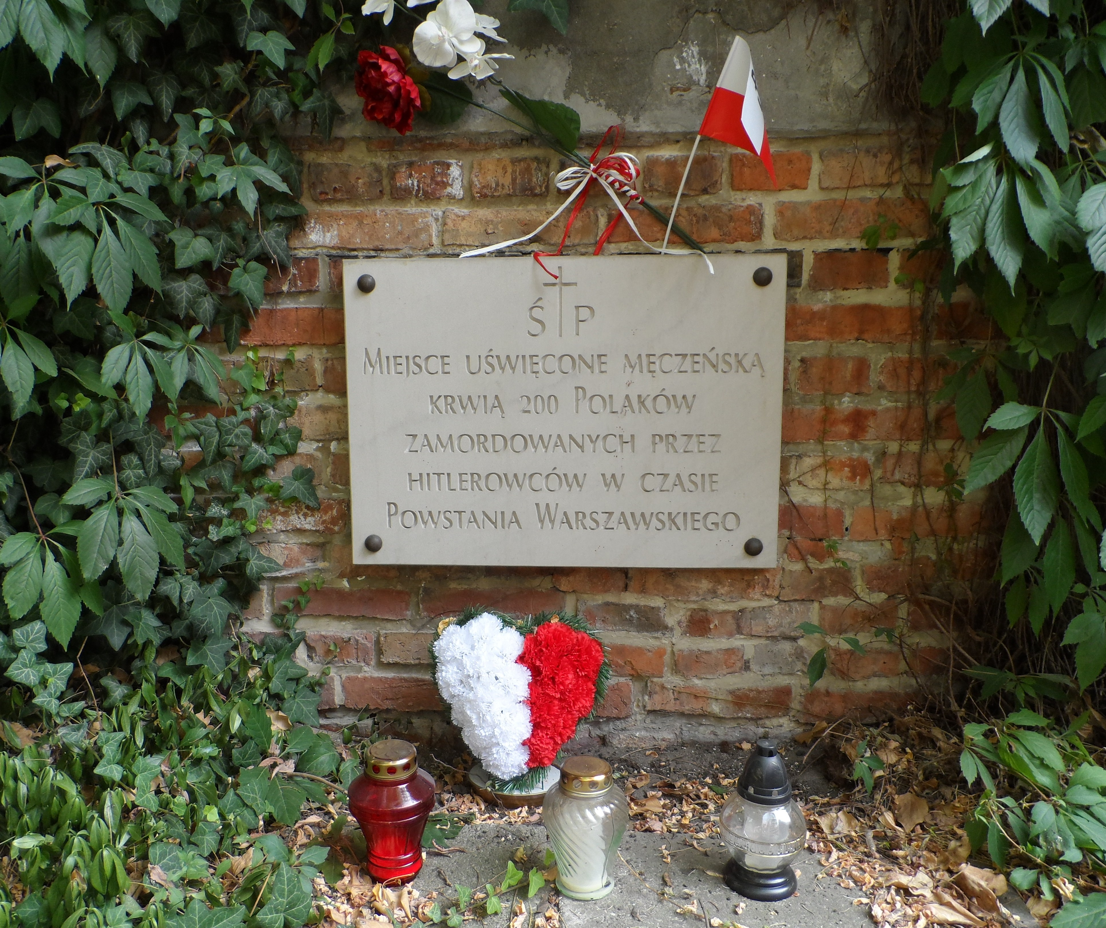 Plaque at the courtyard of the Goldbands Tenement house at 17 Dzika Street in Warsaw, commemorating almost 200 Polish civilians murdered in this place by Nazi-German troops during the Warsaw Uprising. Massacre at Dzika Street took place on 21st August 1944.